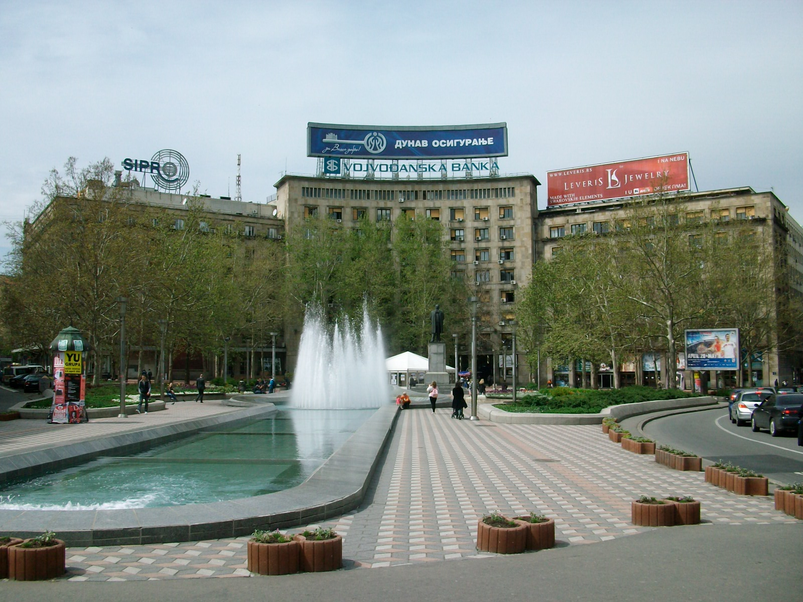 Nikola Pašić square